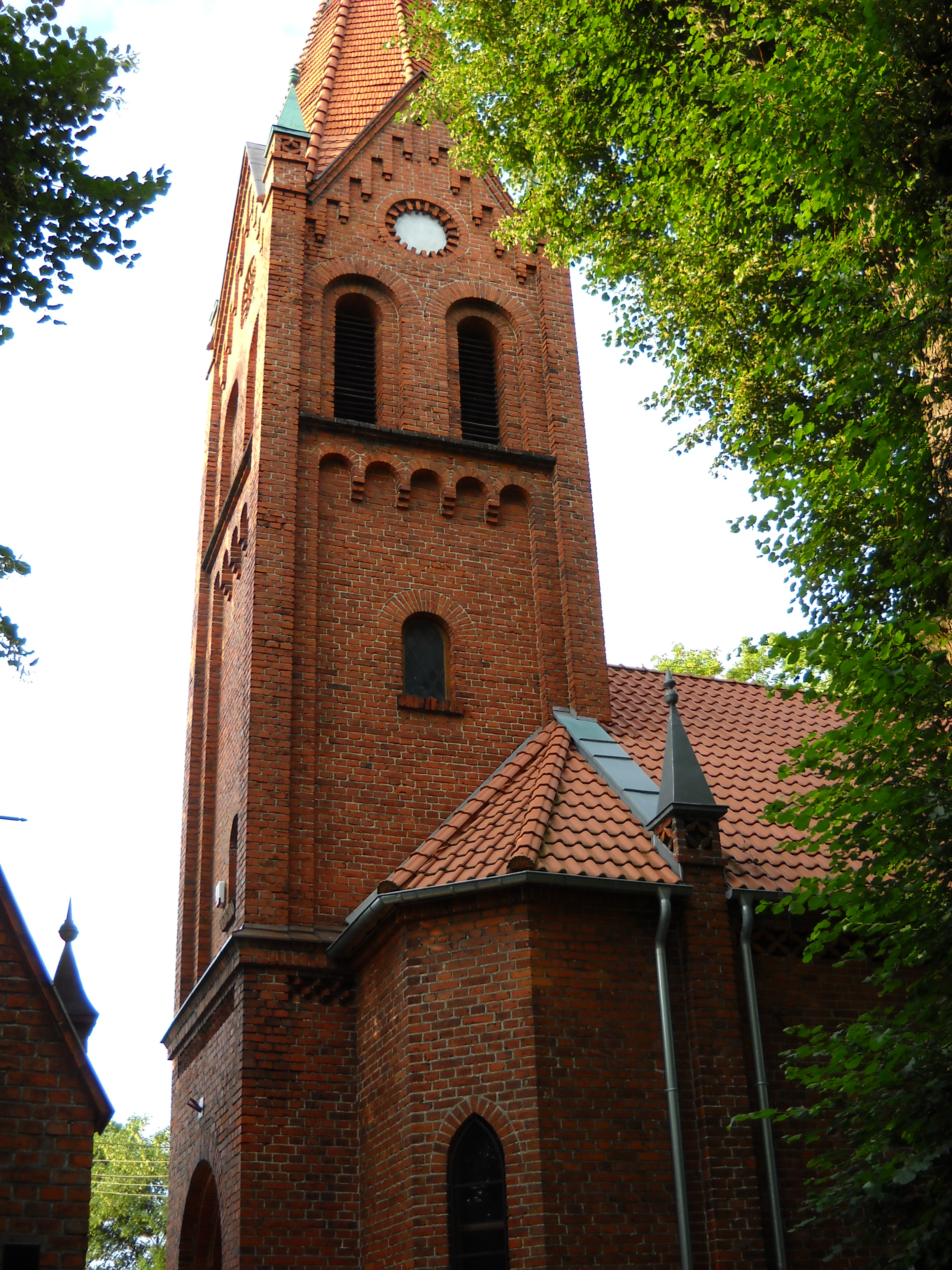 Greek Catholic Church in Pasłęk